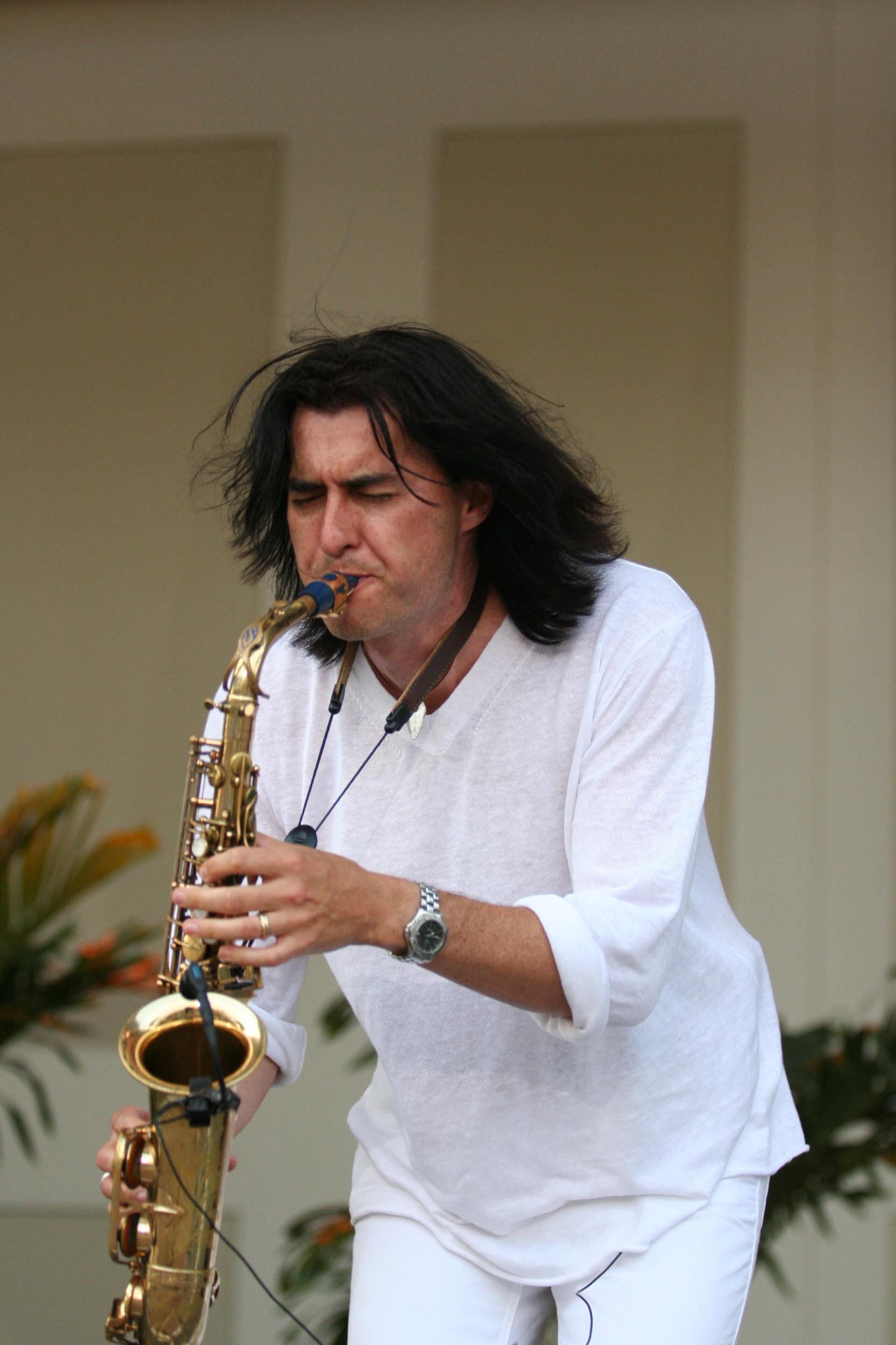 Warren Hill, Canadian jazz saxophonist, during a jazz concert at Jacksonville Beach, Fl.